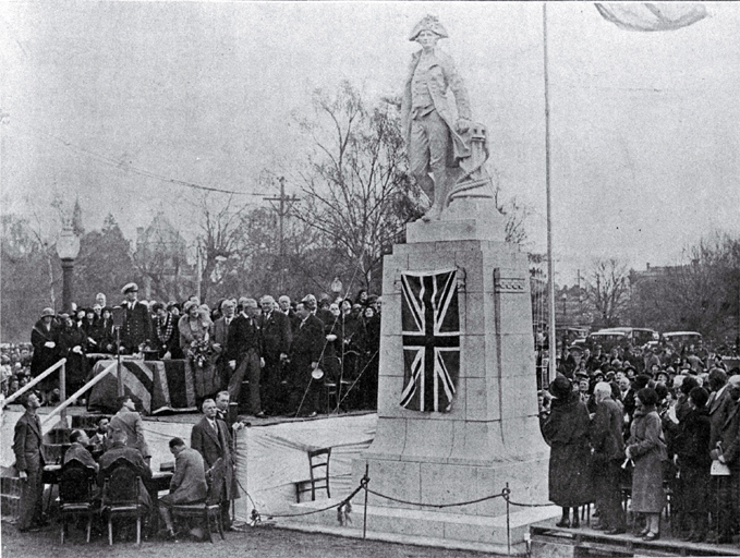 Unveiling of the Captain Cook statue in Victoria Square by the Governor-General. Sculpted by William Trethewey (1892-1956), the statue was donated to the city by a local businessman, Matthew Frank Barnett, and unveiled by the Governor-General, Viscount Bledisloe (1867-1958).